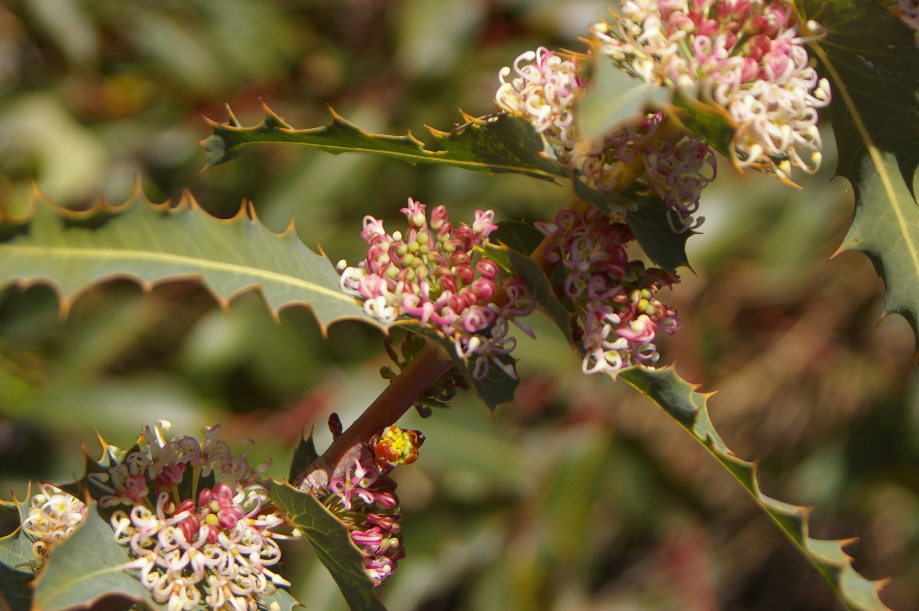 Hakea amplexicaulis taken near Mundaring Weir